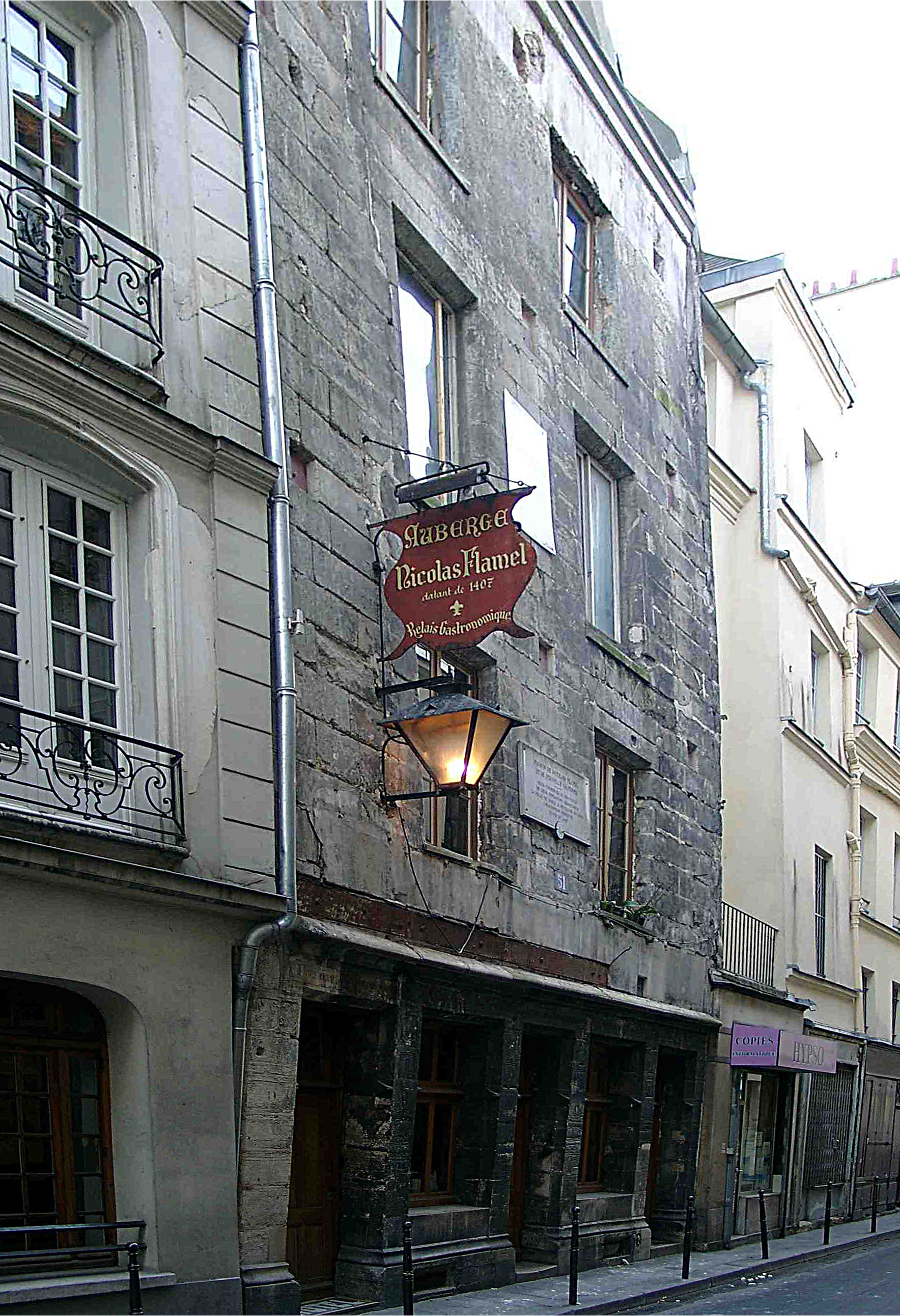 Auberge Nicolas Flamel, rue Montmorency, Paris, one of the oldest private houses in Paris